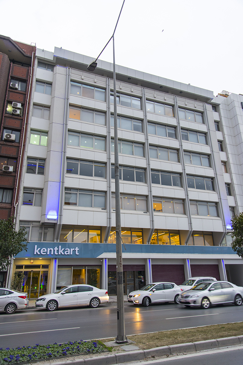 Kentkart-İzmir